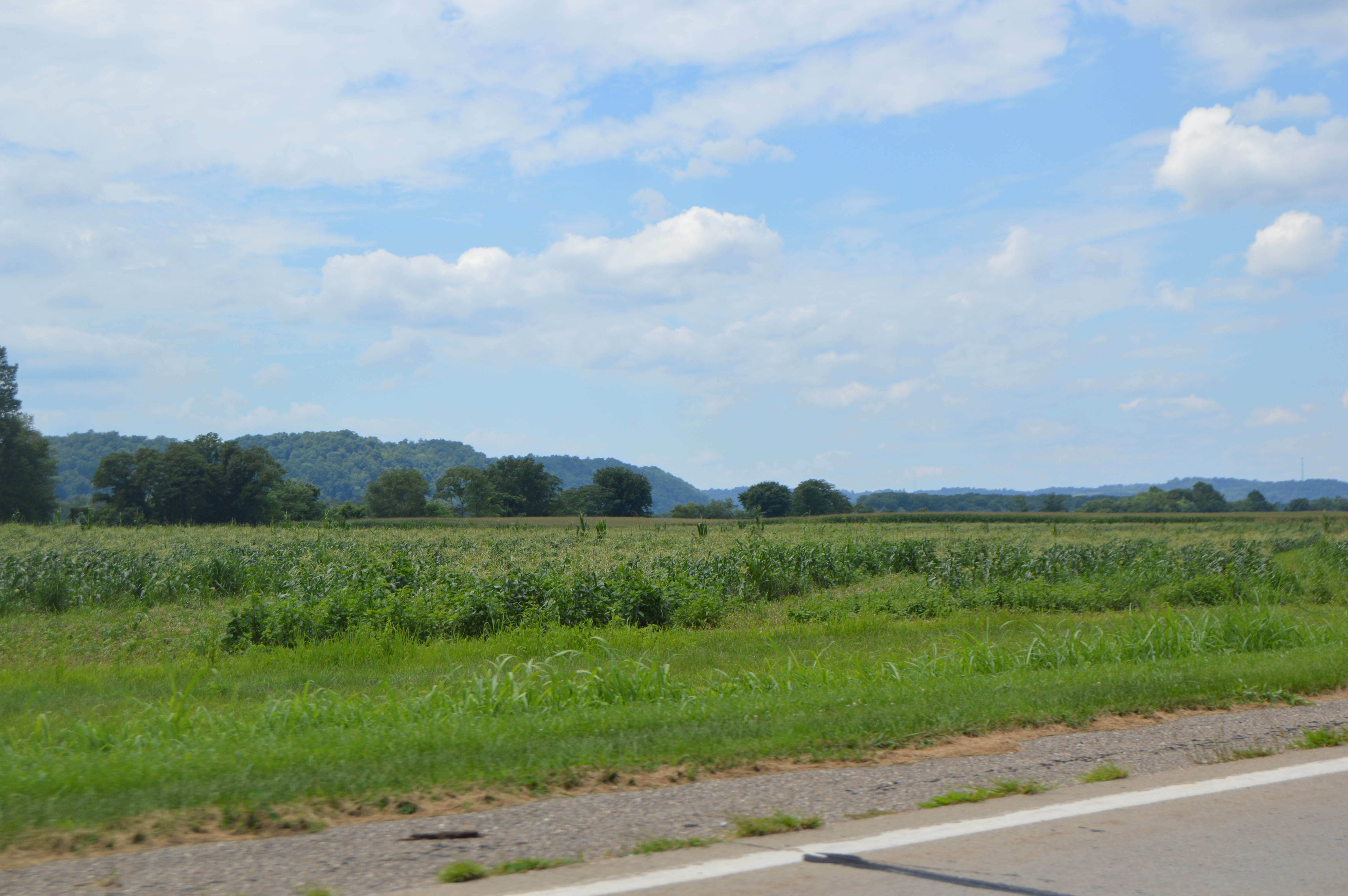 Looking westward from State Route 7 from the Hannan Trace intersection in Ohio Township, Gallia County, Ohio, United States.